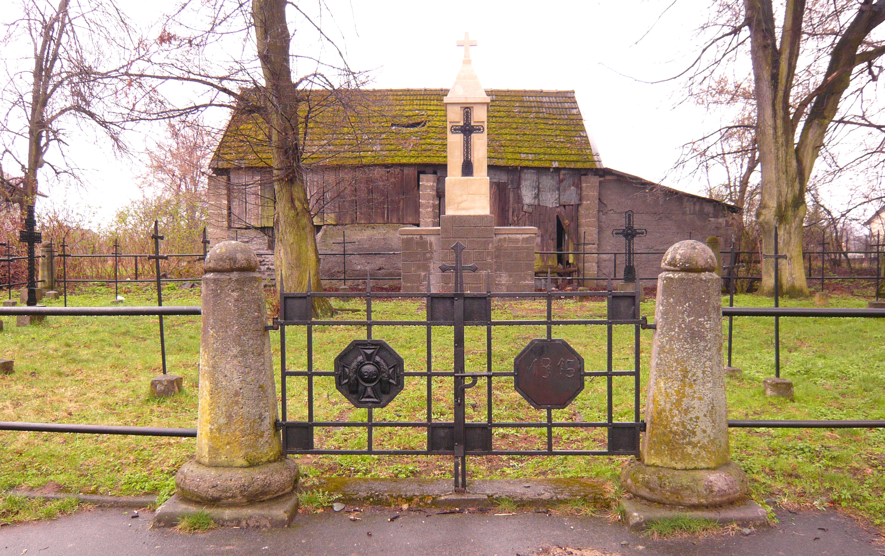 I WW cementery Krzeczów